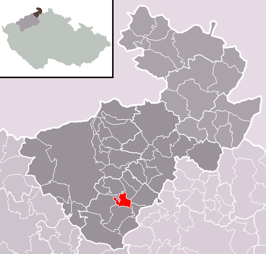 Location of Františkov nad Ploučnicí municipality within Děčín District and administrative area of Děčín as a Municipality with Extended Competence.